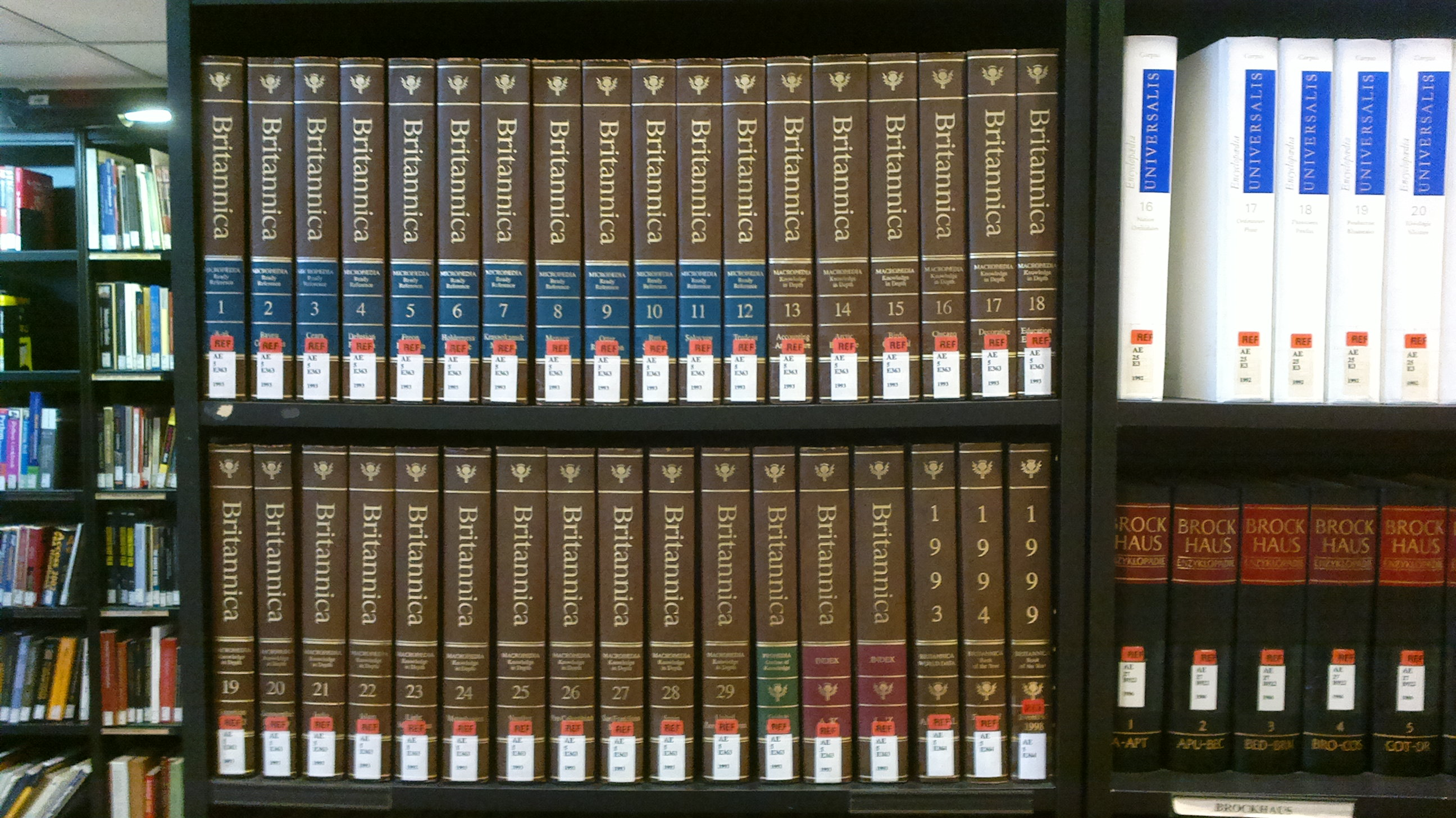 Encyclopædia Britannica, 15th edition (1993). Photo taken in the library of Central European University.